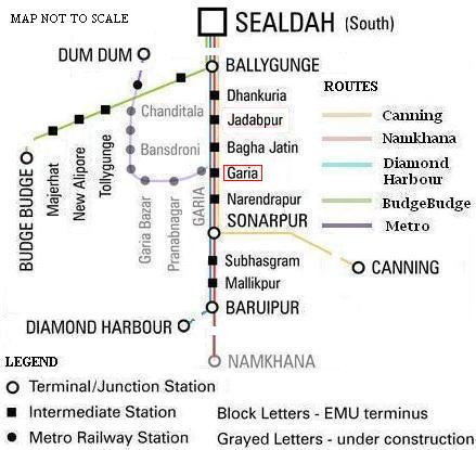 this is a major modification of the map at kolkata suburbarn railway article